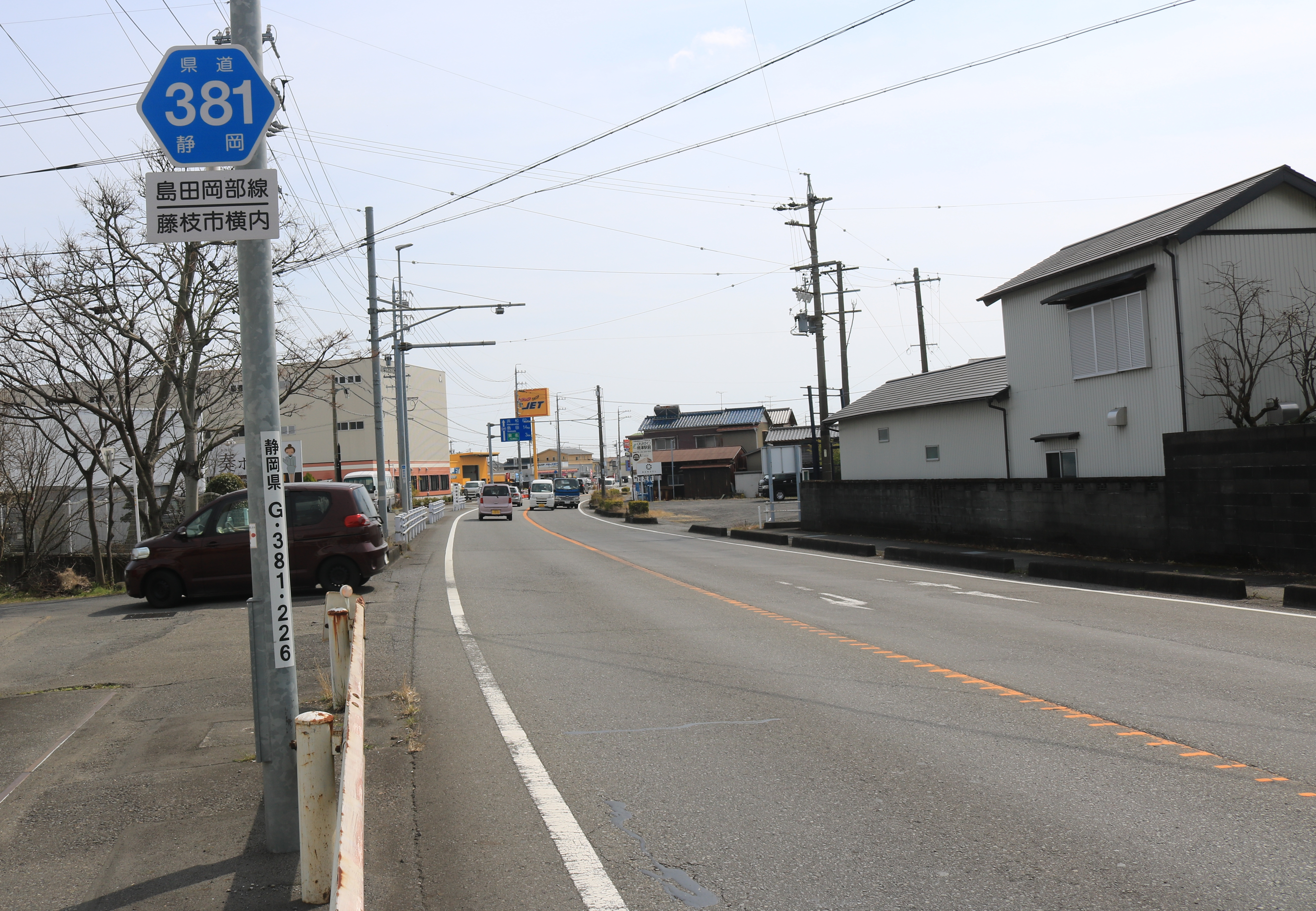 Shizuoka Prefectural Road Route 381 in Yokouchi, Fujieda, Shizuoka prefecture, Japan.